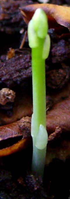 Asparagus officinalis cotyledon, Barcelona,Spain